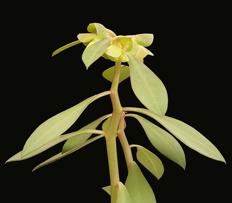 Description: Euphorbia lupulina Source: self-made Date: created 25. May 2004 Author: Frank Vincentz Permission: GFDL (self made) Other versions of this file: available on request